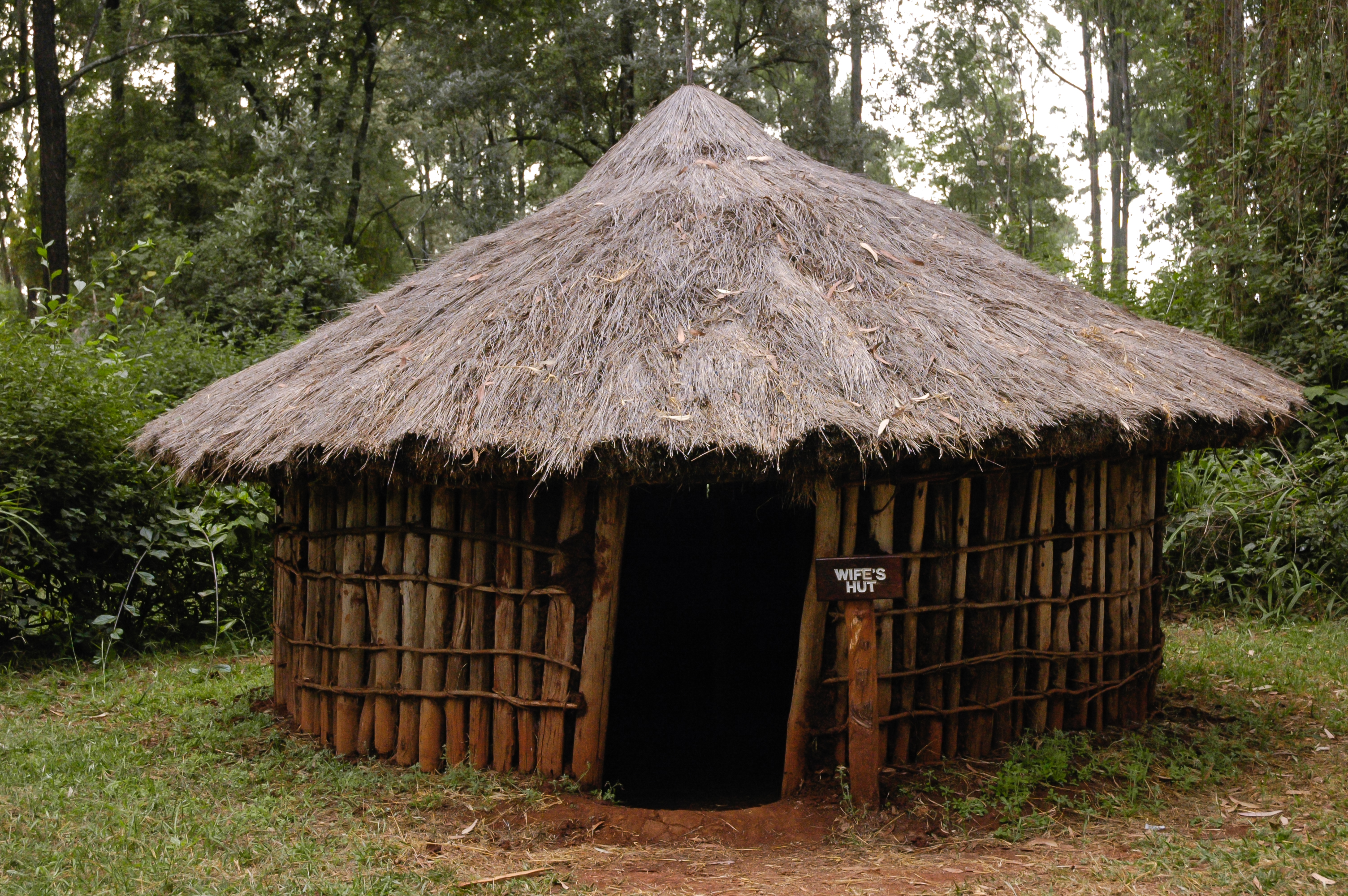 Wife`s hut in Kalenjin village at Bomas of Kenia near Nairobi